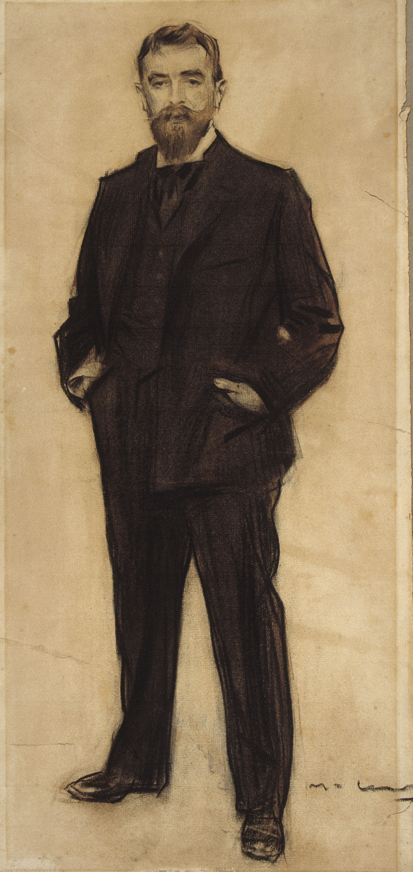 Portrait by Ramon Casas conserved at MNAC in Barcelona.